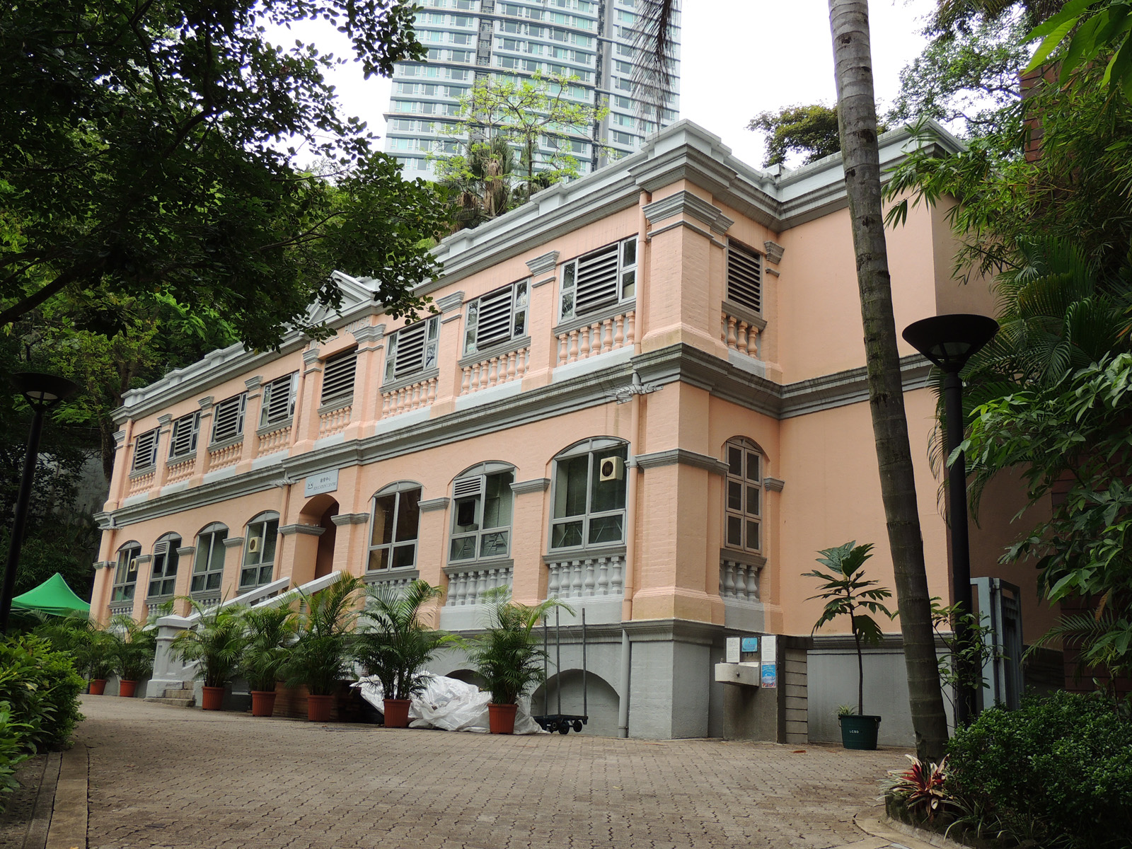 Old Victoria Barracks, Wavell Block